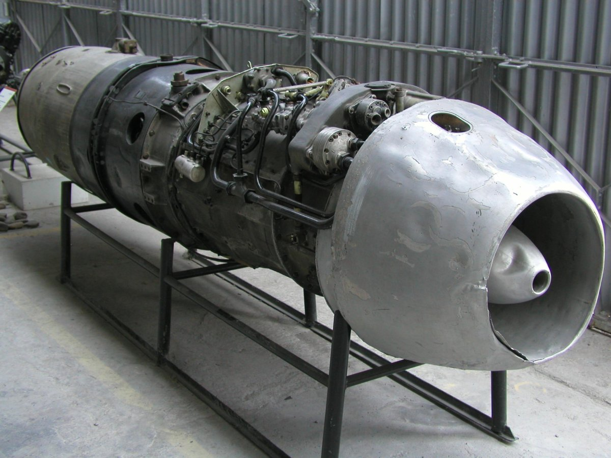 Avia M-04 jet engine (Junkers Jumo 004 B-1, built in Czechoslovakia, displayed at the Aviatoin Museum in Kosice, Slovakia)